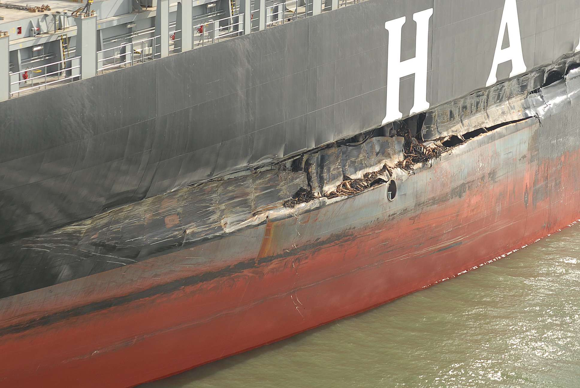 Photo of the damage to the MV Hanjin Venezia, former COSCO Busan, after striking the San Francisco Bay Bridge, November 7, 2007. IMO Number: 9231743